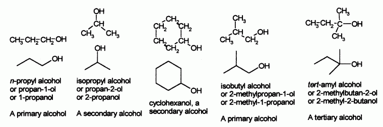 Examples of common alcohols & their names